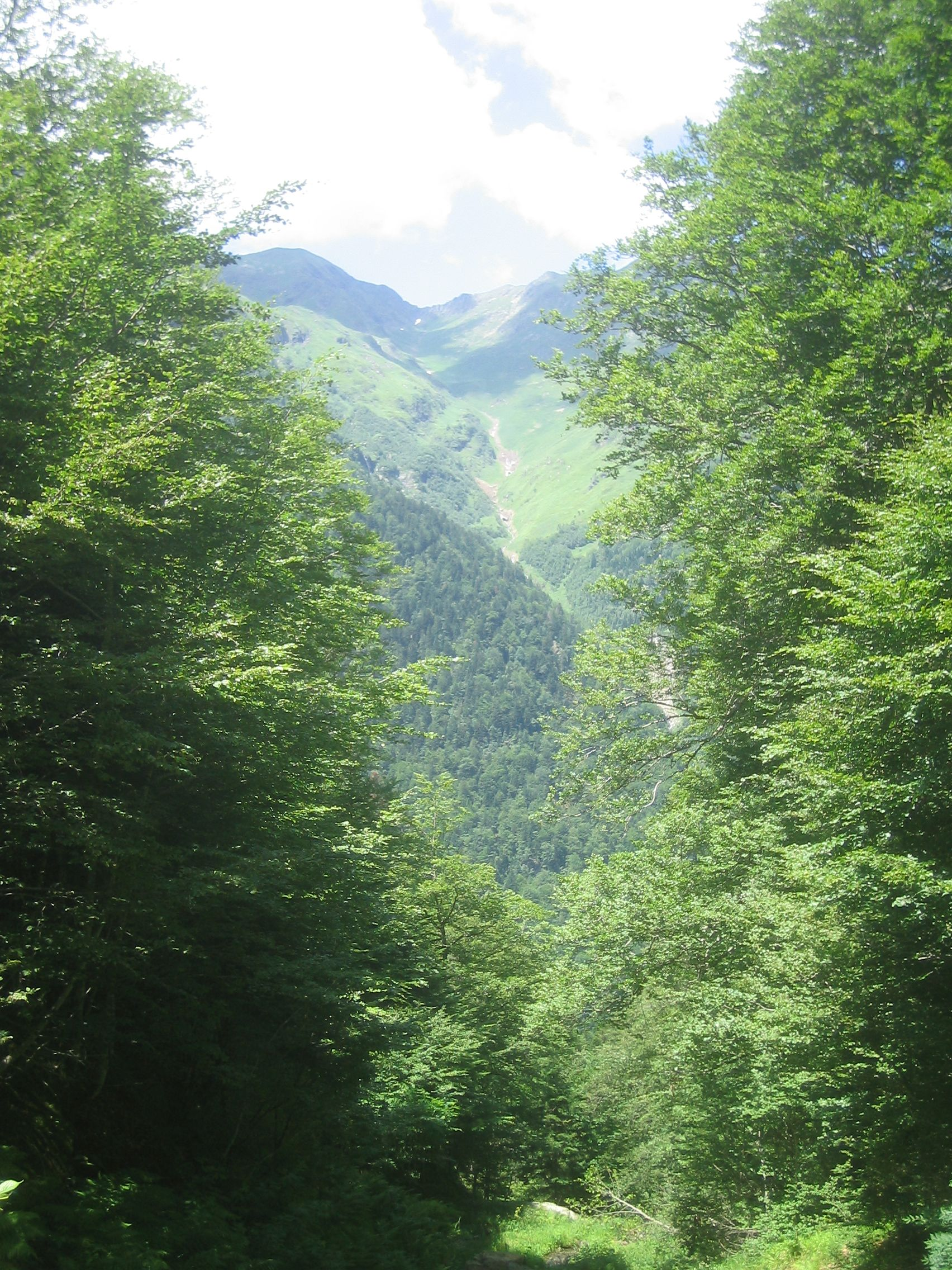 Luchon, Pyrenes in the south of France